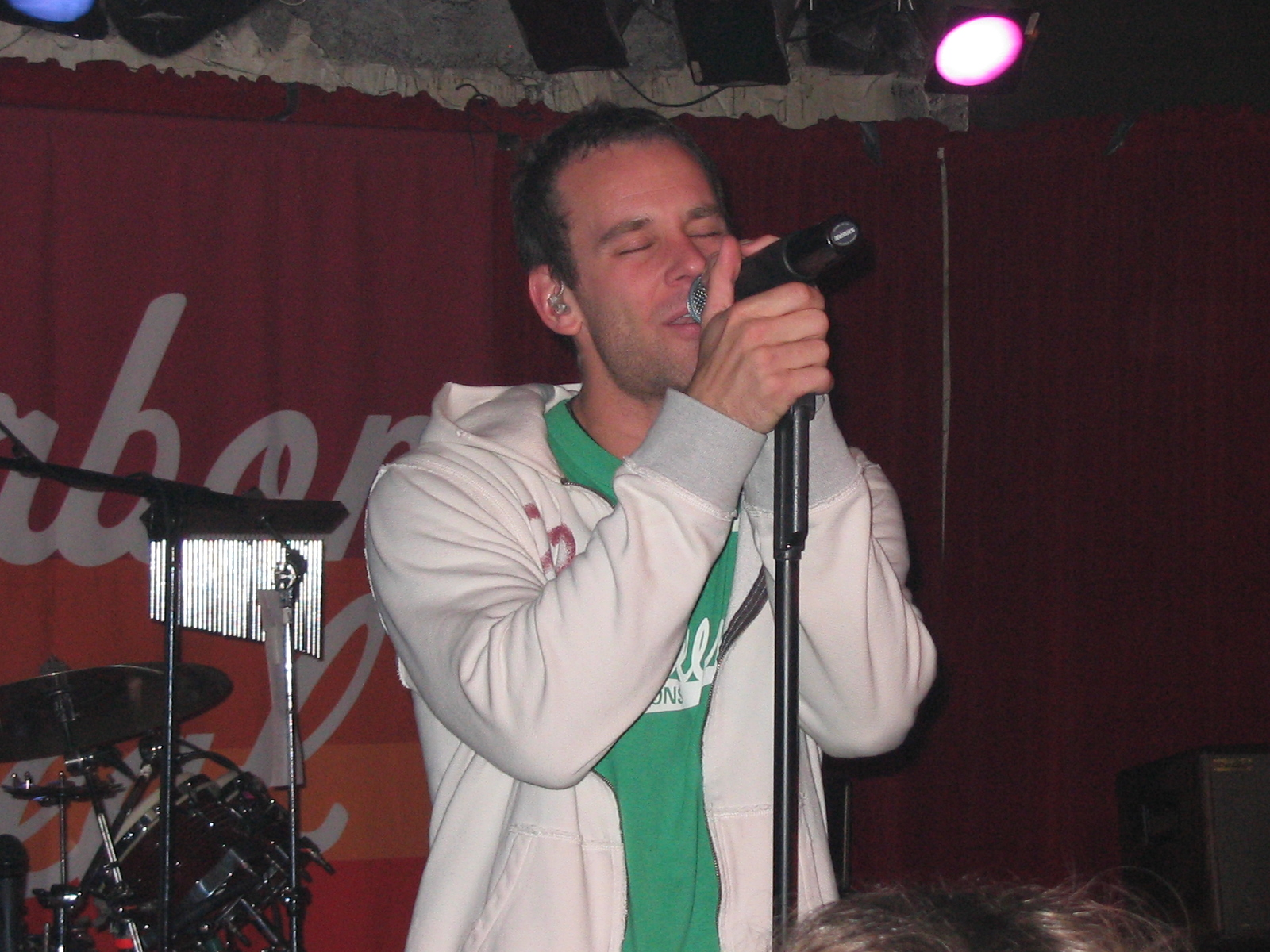 Carbon Leaf's Barry Privett at the Grog Shop in Cleveland, Ohio (2005-04-25). Author: Mark Patrick McCartney.